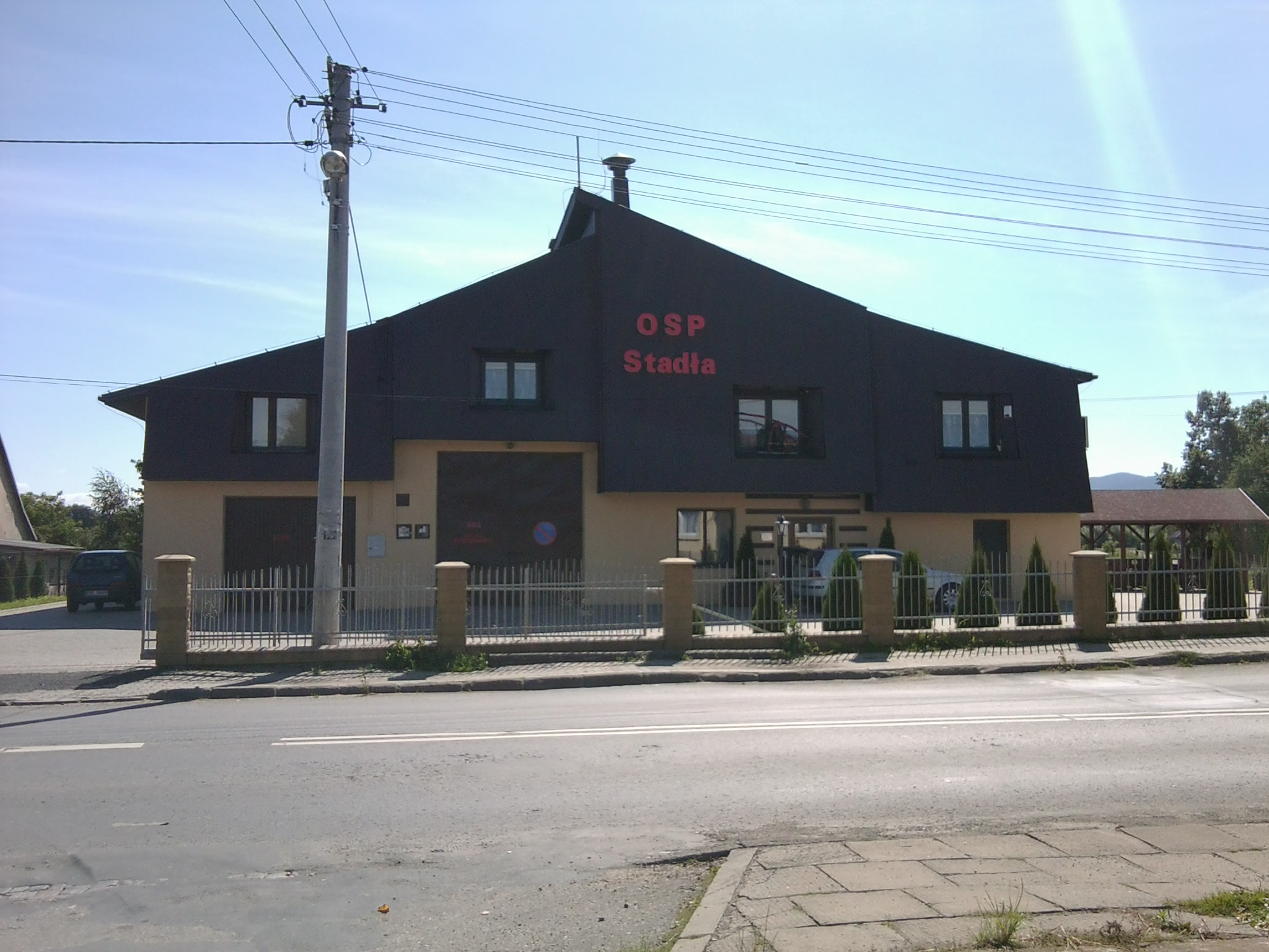 Fire station in Stadła